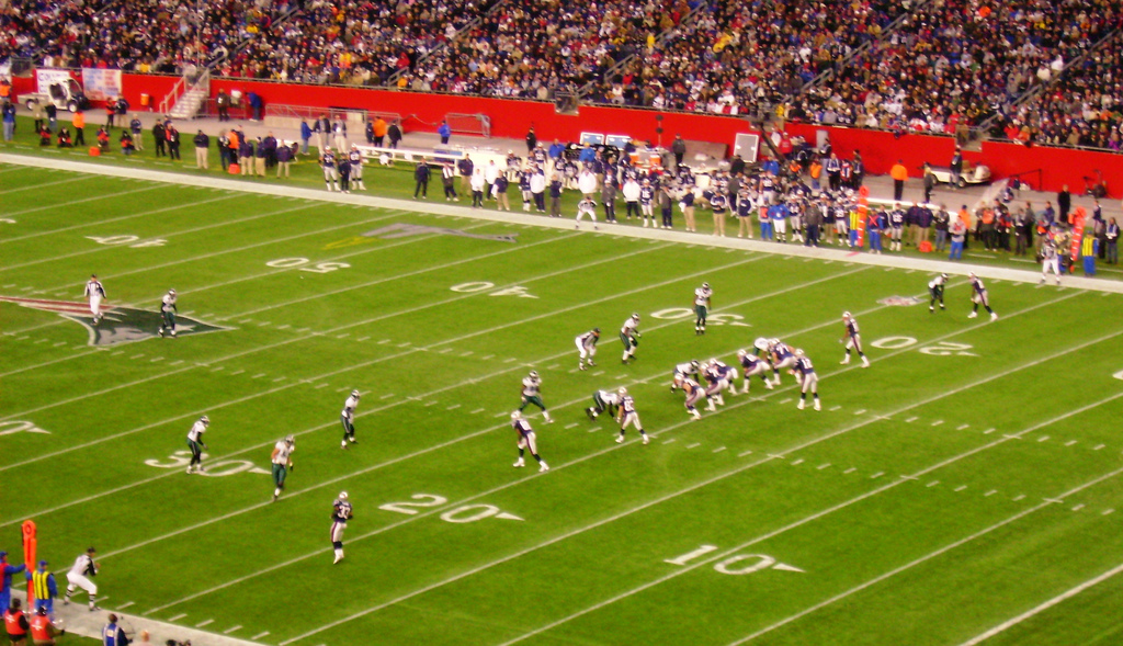 Patriots v. the Eagles at Gillette Stadium. Spread 'em out.